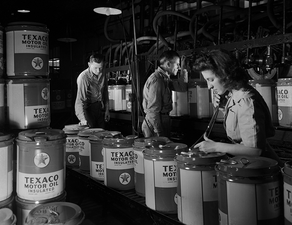 Title: Port Arthur refinery, The Texas Company Creator: Robert Yarnall Richie Date: 1943 Part Of: Robert Yarnall Richie Photograph Collection Place: Port Arthur, Texas Physical Description: 1 negative: film, black and white; 10.2 x 12.8 cm. File: ag1982_0234_2511_08_texasco_sm_opt.jpg Rights: Please cite DeGolyer Library, Southern Methodist University when using this file. A high-resolution version of this file may be obtained for a fee. For details see the web page. For other information, . For more information and to view the image in high resolution, View the Robert Yarnall Richie photograph collection